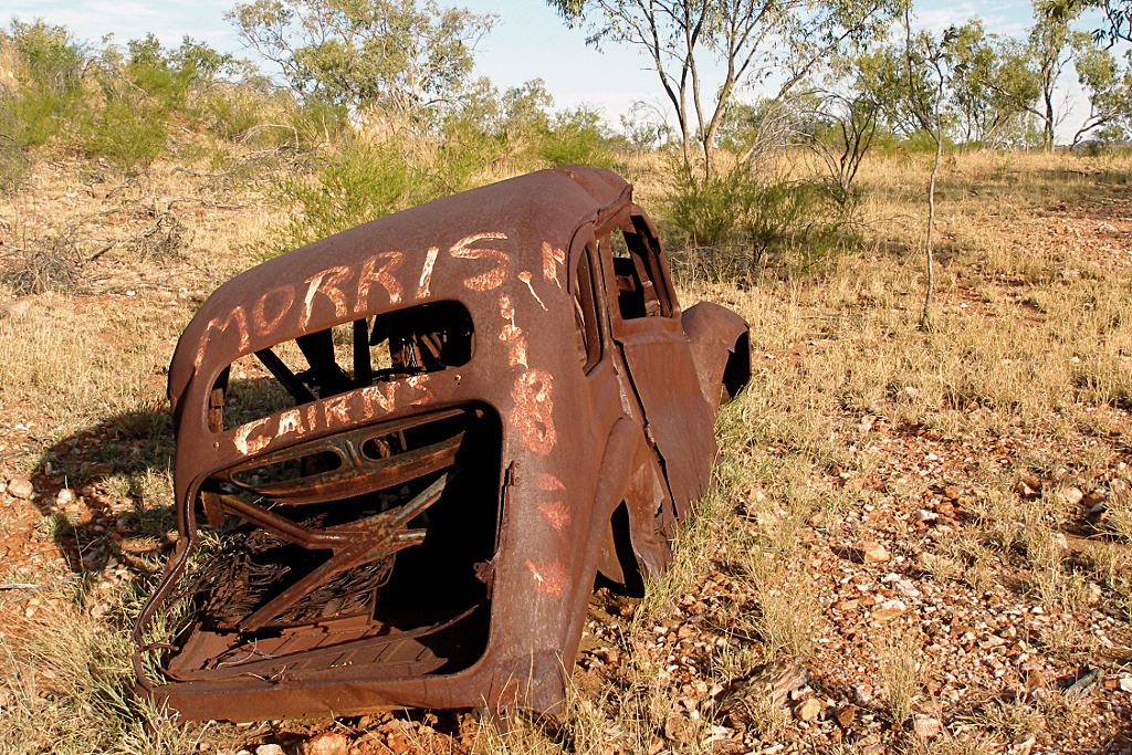 Mary Kathleen, Queensland, Australia, abandoned car near the abandoned townsite. Appears to be a Morris 8 series E 2-door saloon based on another photo taken from the side.